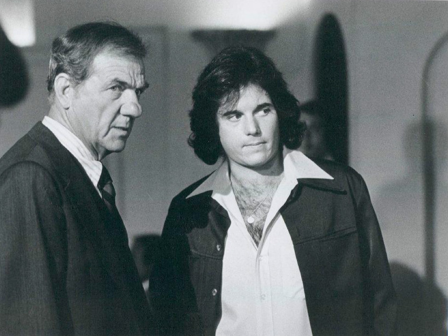 Publicity photo from the television program The Streets of San Francisco. In the photo are Karl Malden and Desi Arnaz, Jr.